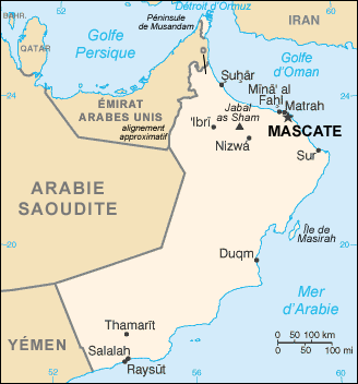 Map in French of Oman